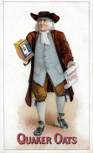 Persistent URL: Subject (TGM): Men; Clothing & dress; Cereal products; Oats; Grains; Trademarks; Food industry; Message: Keywords